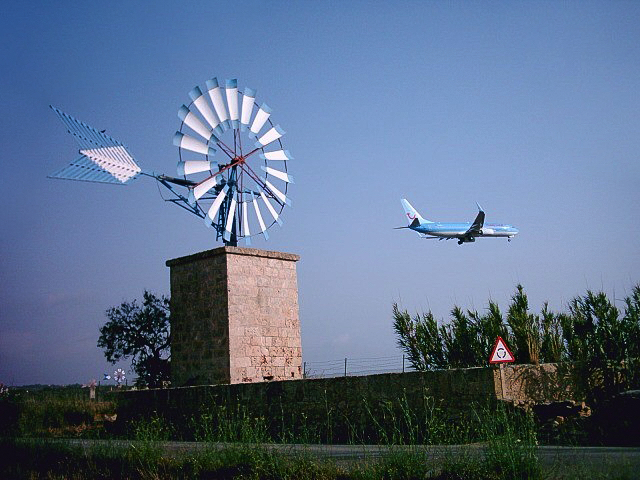 Windmill and aircraft, Mallorca (Spain)